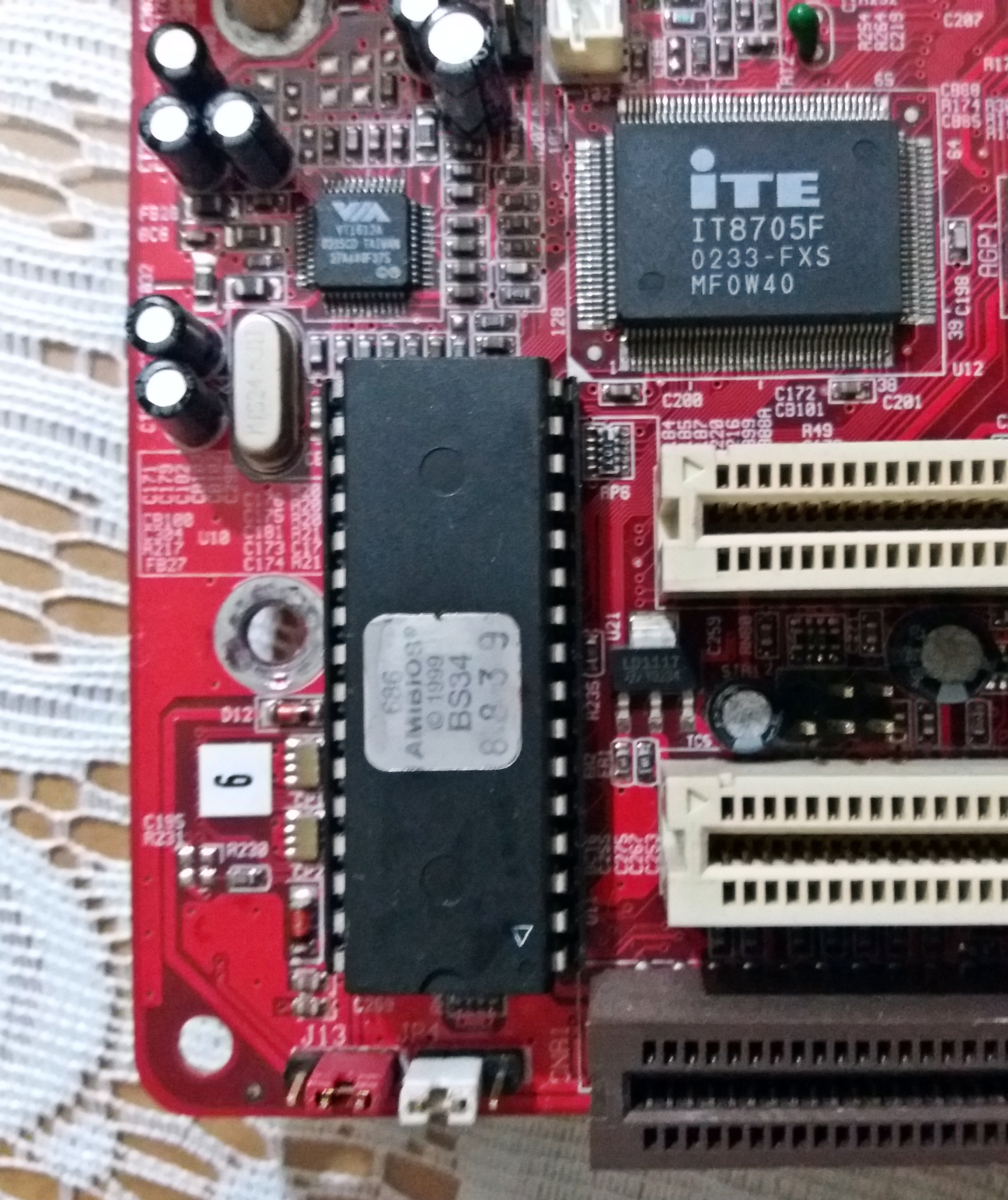 AMIBIOS in the PCChips M925LR Motherboard